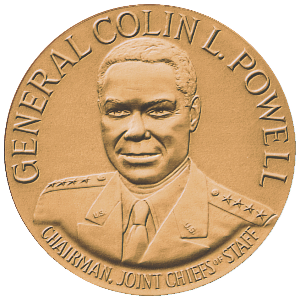 Bronze duplicate of General Colin Powell Congressional Gold Medal (front)